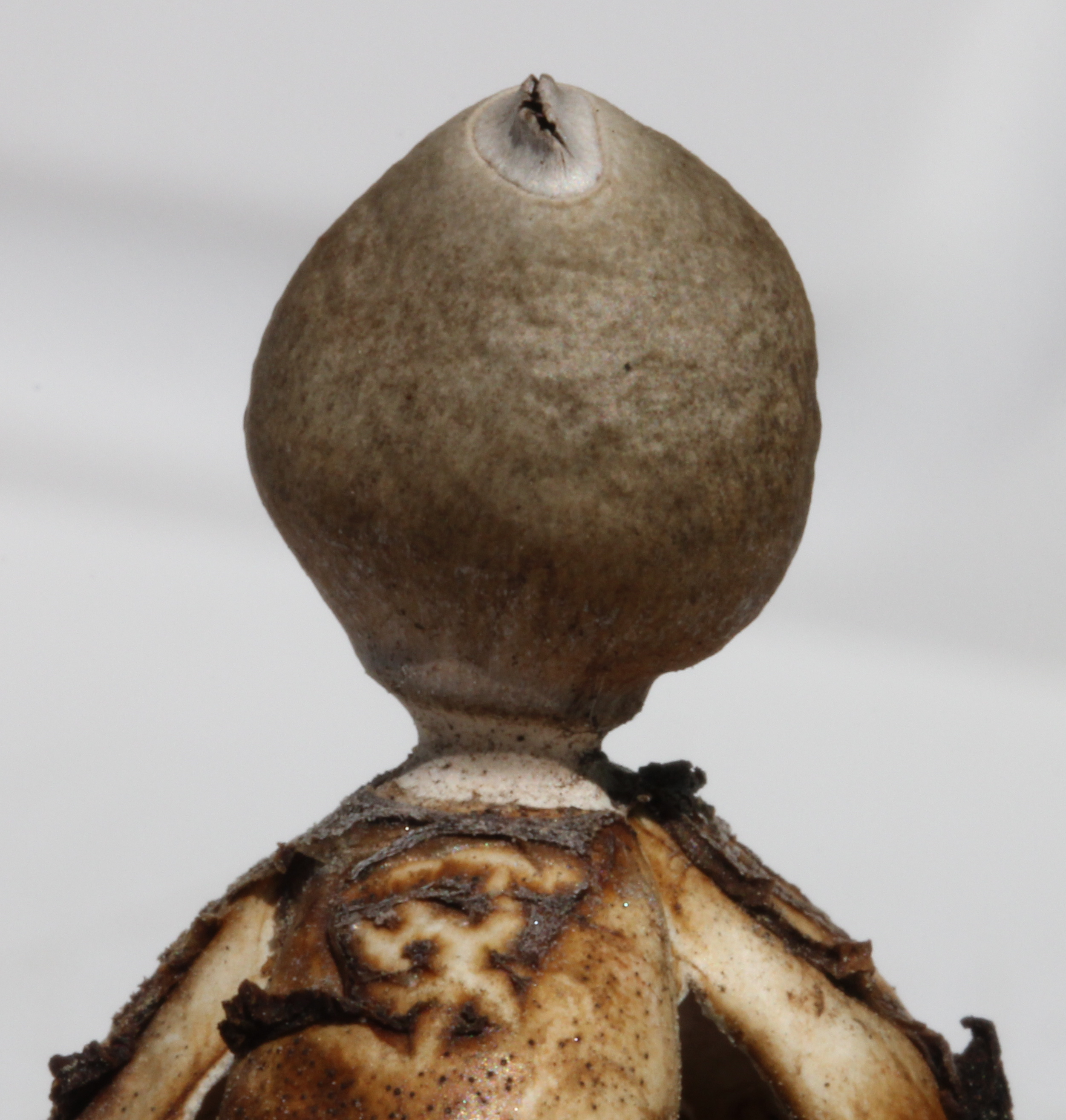 Closeup of the spore sac of the earthstar fungus Geastrum quadrifidum Pers.:Pers.